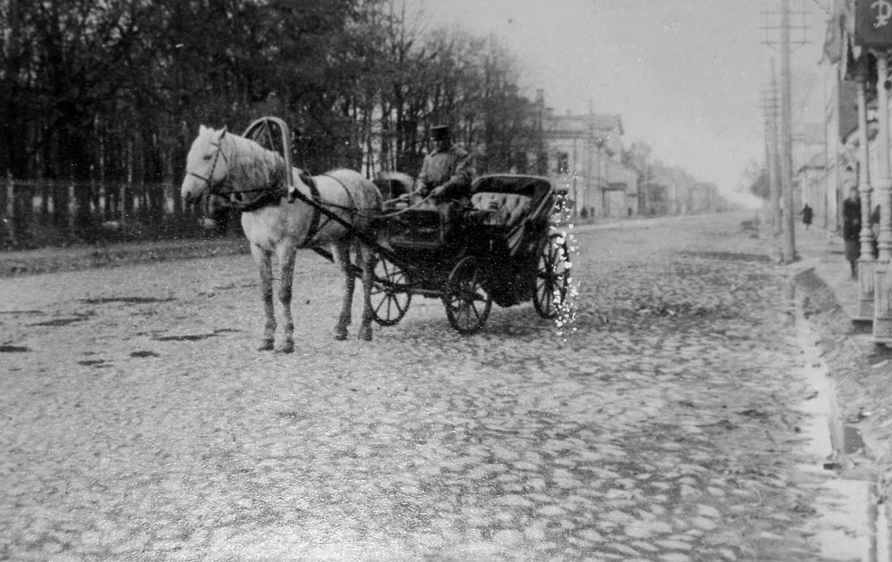 Trooper